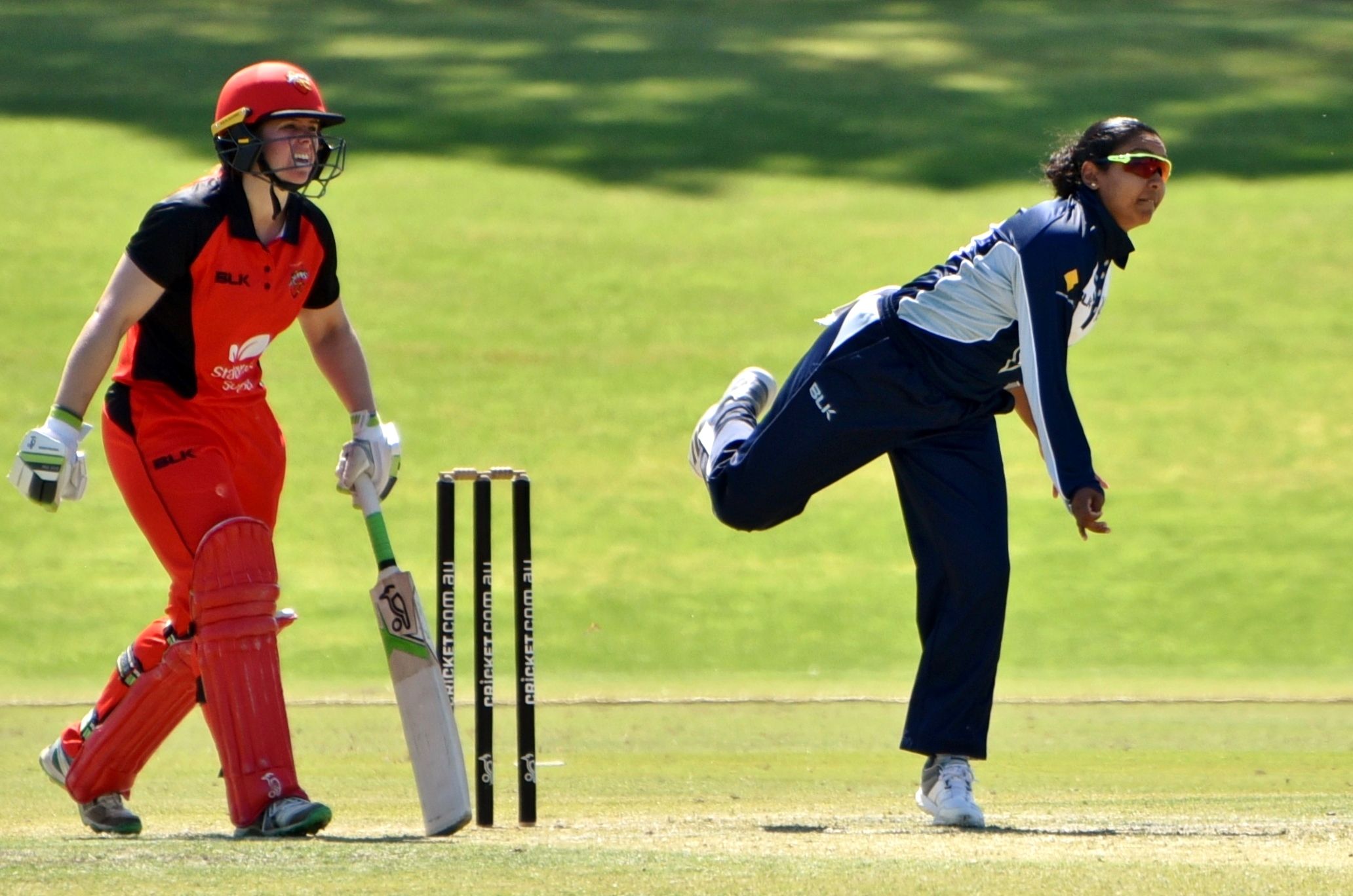 Alana King bowling for the Victoria Women cricket team during a WNCL clash against the South Australian Scorpions at Murdoch University Sports Oval in Perth. The batter is Tegan McPharlin.